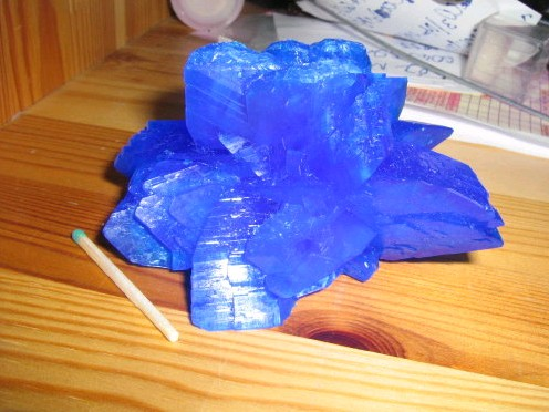 A crystal of copper(II) sulfate